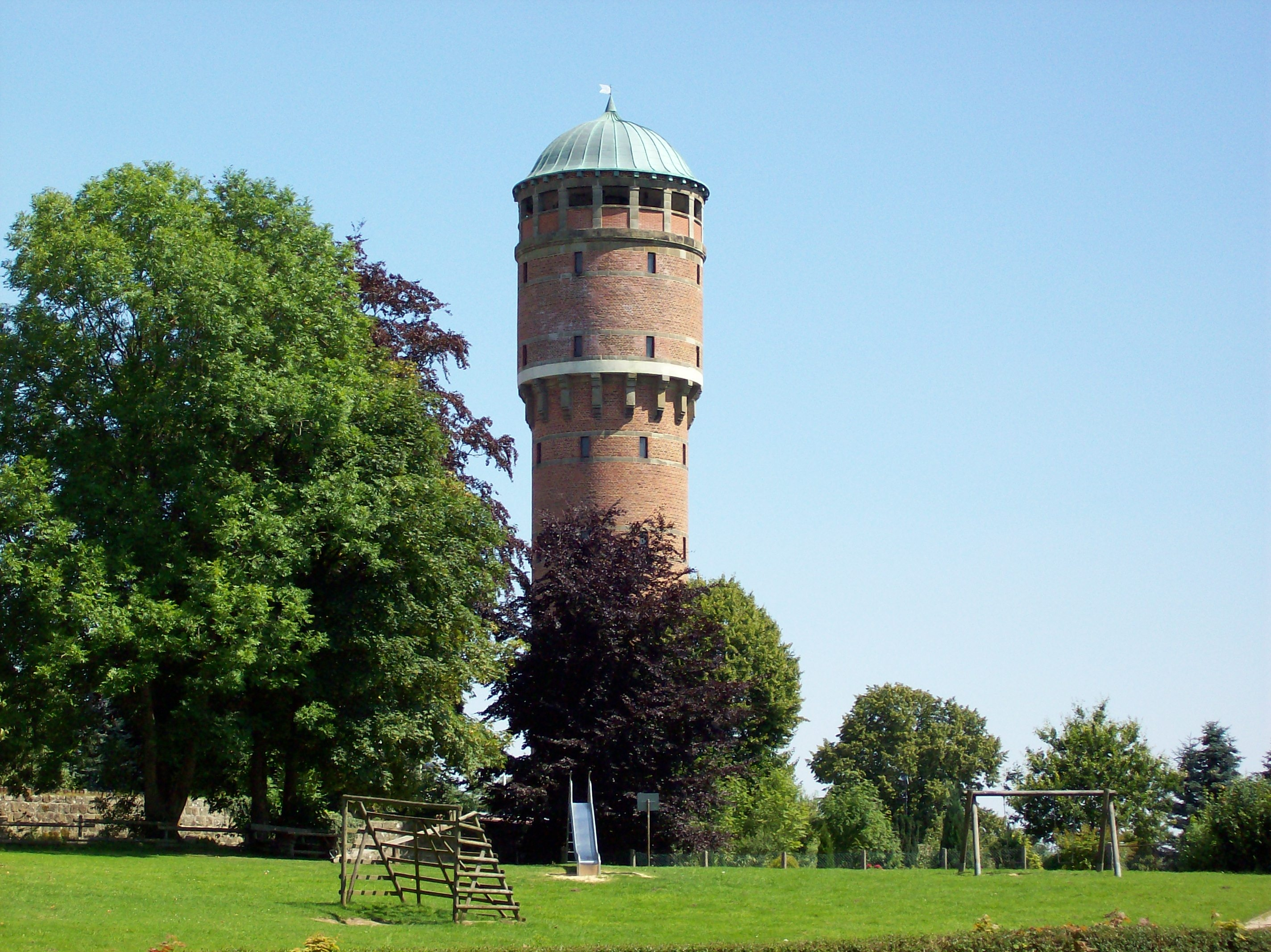 water tower in Rüthen, Westphalia, Germany; built in 1909; declared as a historic monument